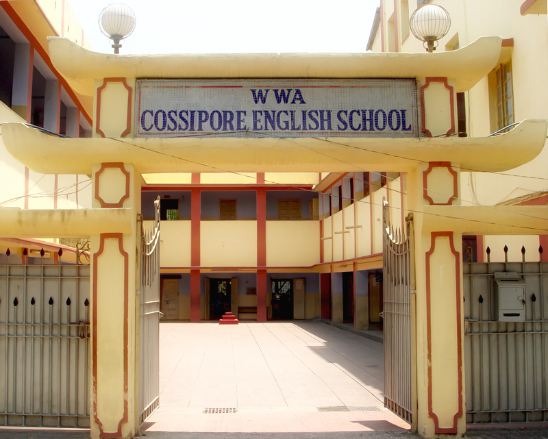 Front gate of W.W.A. Cossipore English School